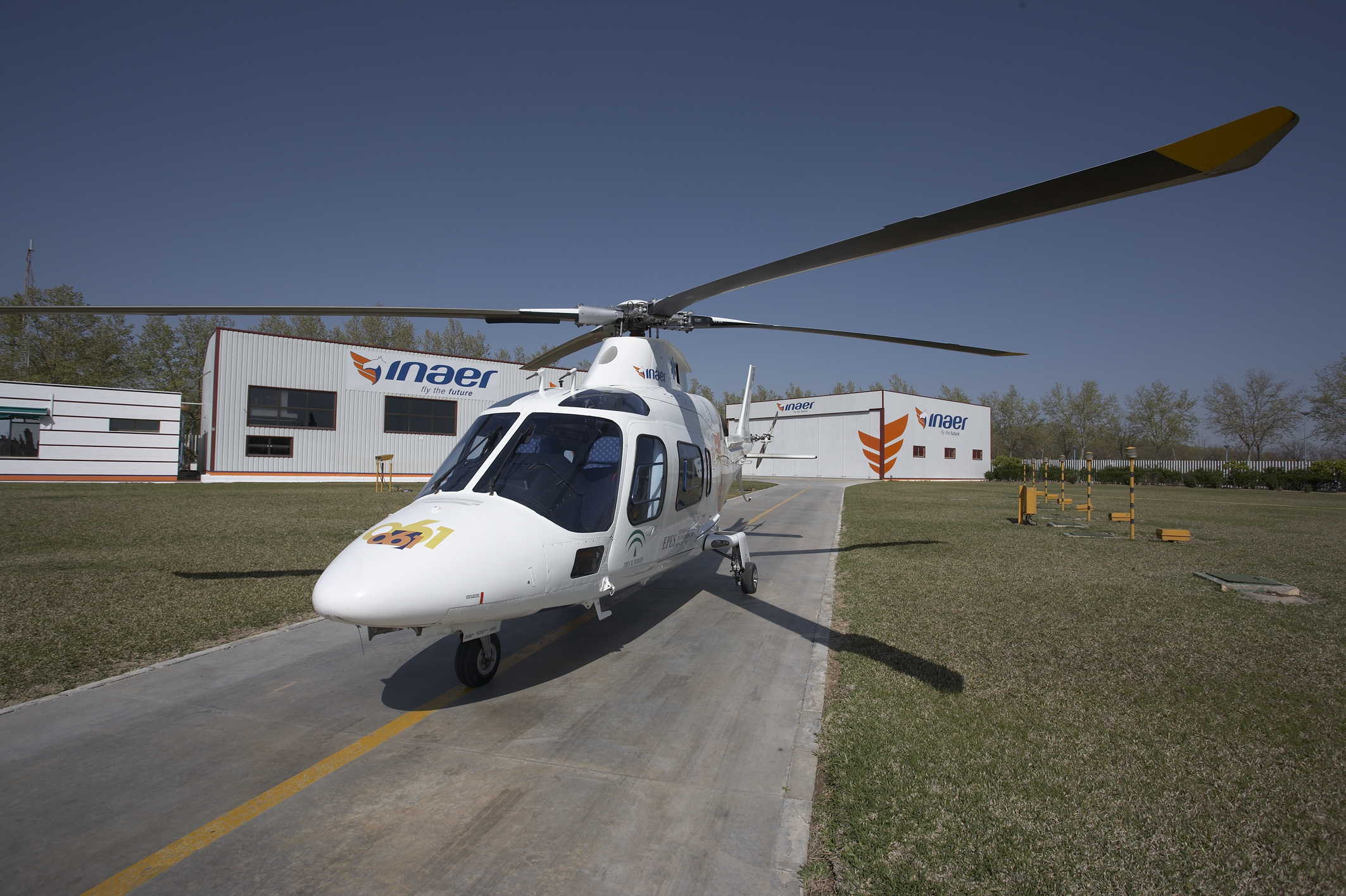 INAER